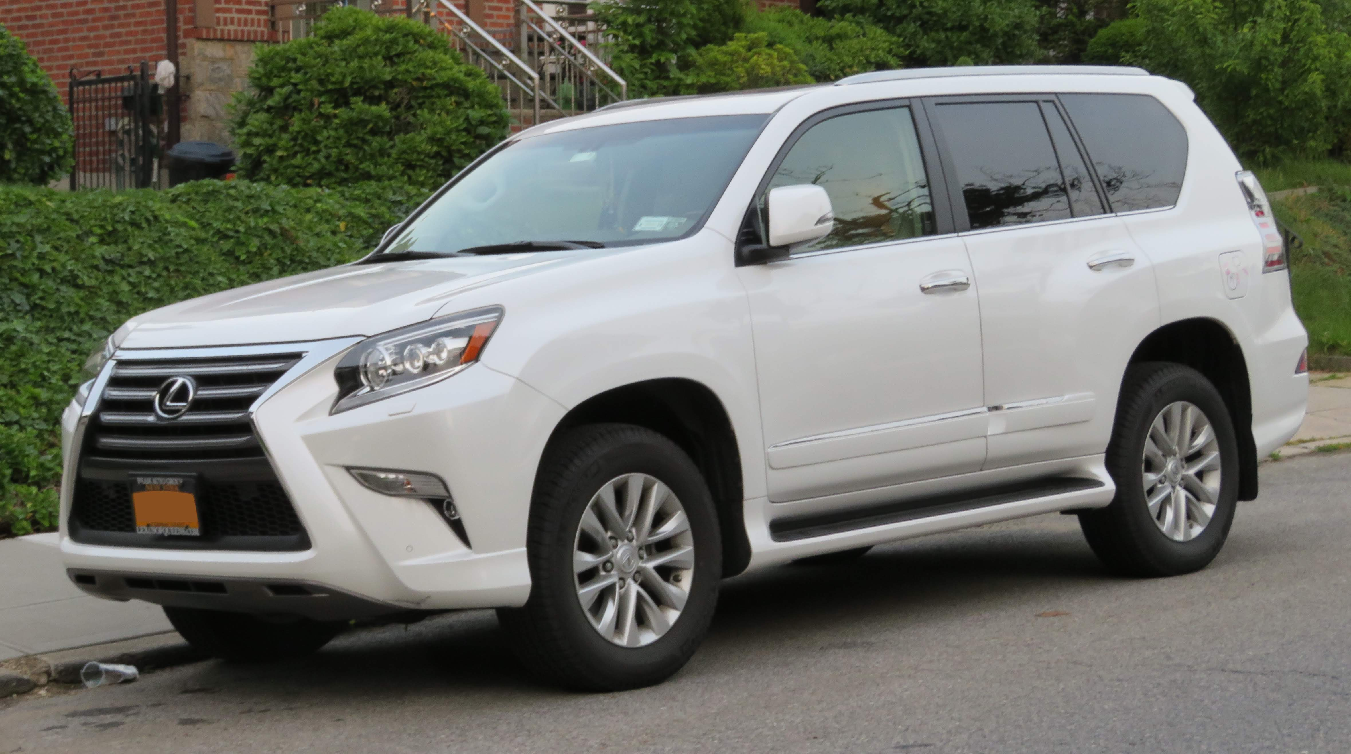 Photographed in Queens, New York